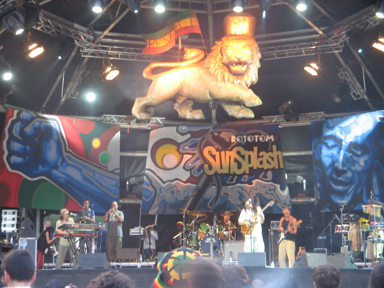 Rototom Sunsplash, one of the biggest reggae festival in Europe (Osoppo, Italy), performing Franziska